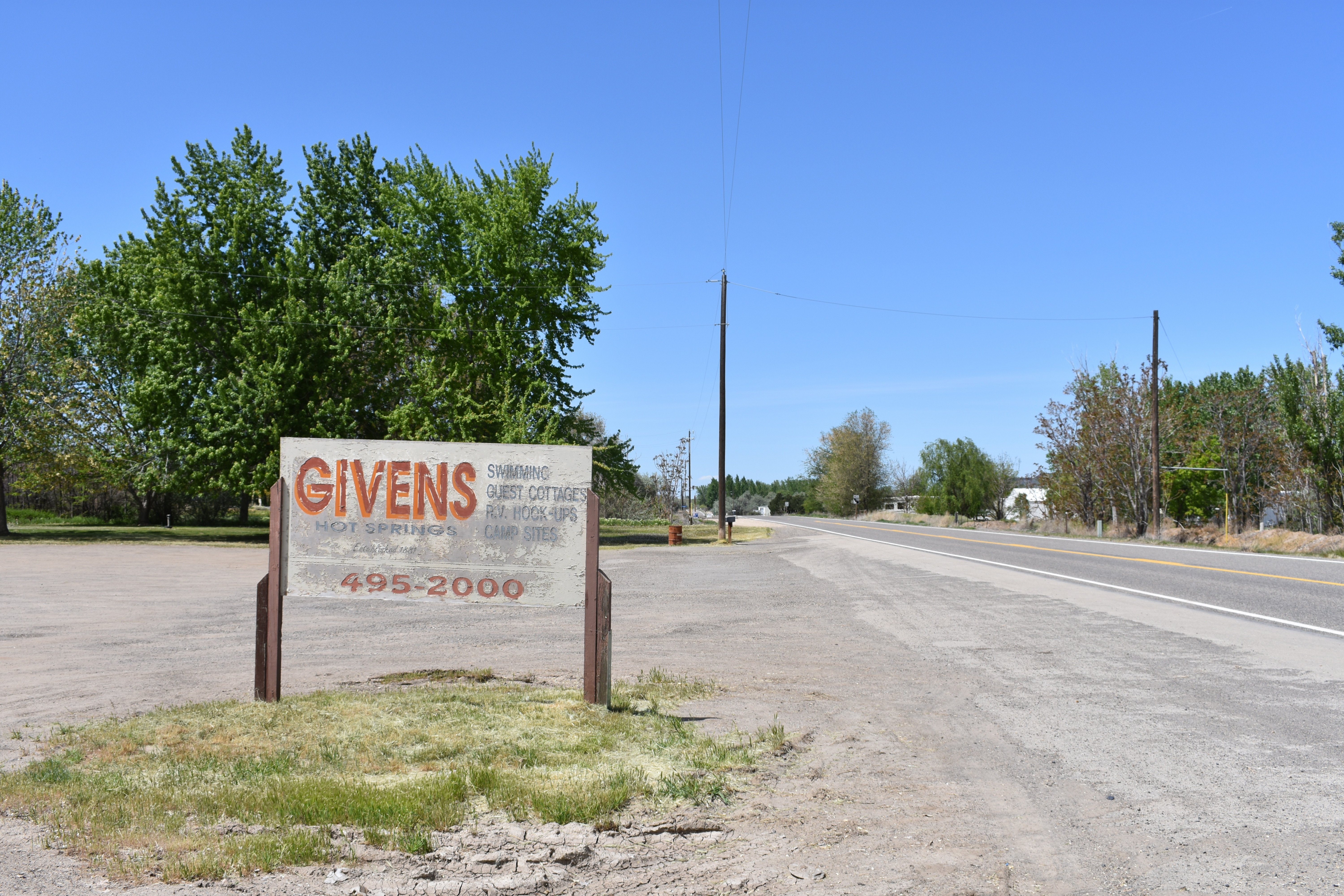 Givens Hot Springs was a town on the south bank of the Snake River, developed and settled by Milford R. and Martha S. Givens beginning in 1879.